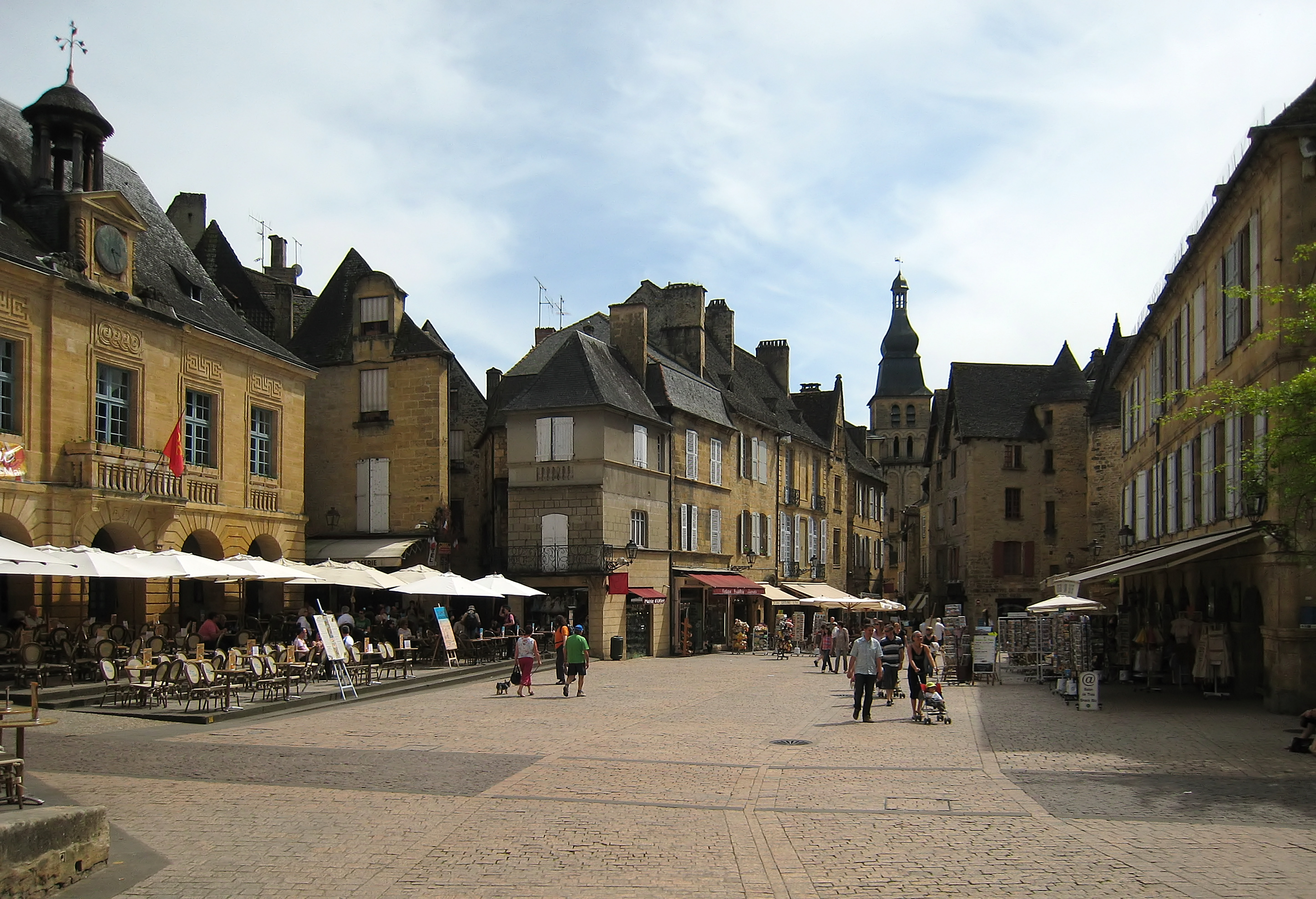 Village of Sarlat in the Département of Dordogne/France - old town, south end of the market square